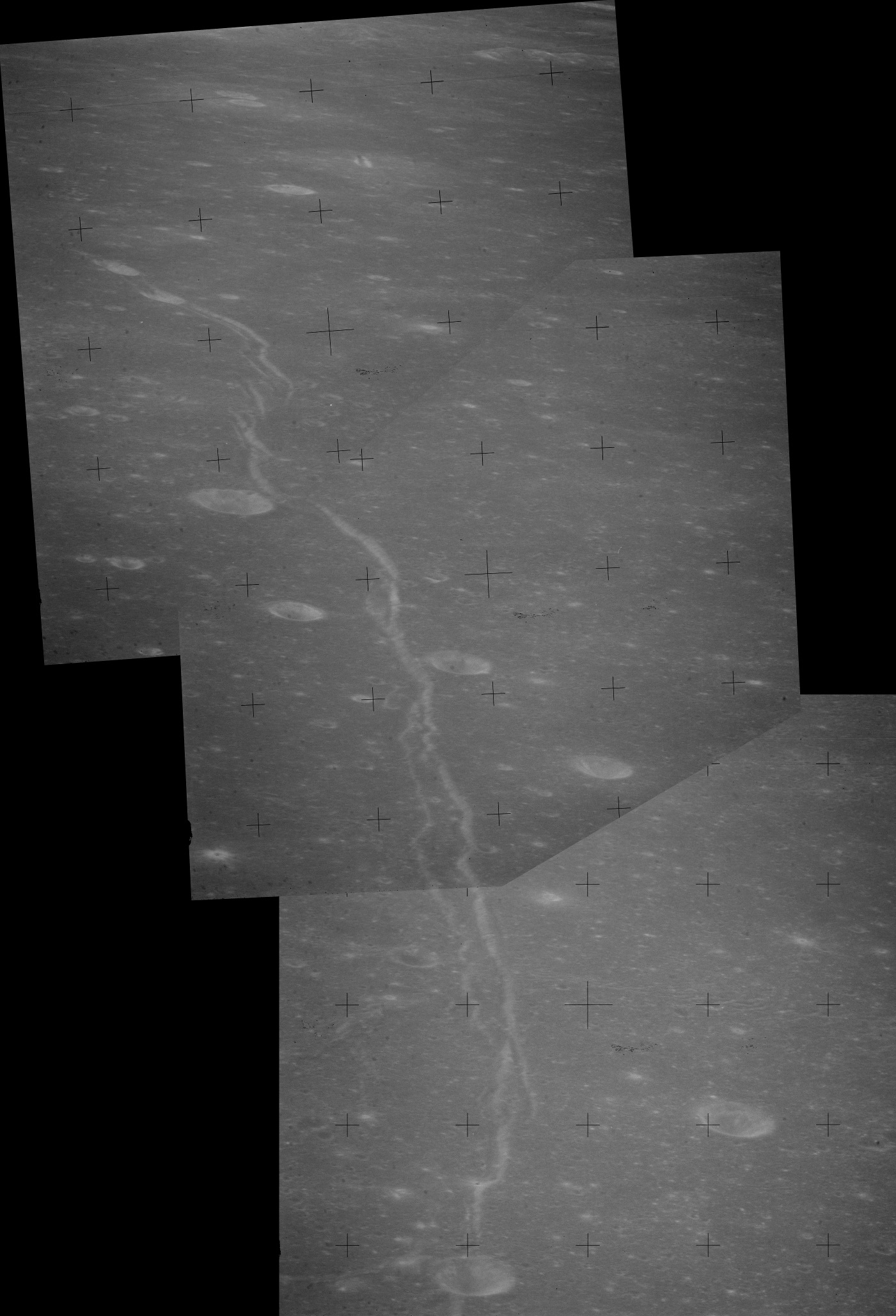 Mosaic of 3 Apollo 15 images showing Rupes Cauchy in Mare Tranquillitatis, facing west. The crater Cauchy is out of the frame to the right. Cauchy C, E, F, and B are visible (bottom to top). Beyond the Rupes are Jansen T and U, and an unnamed mound that may be a volcanic feature. The crater Cajal is at the very top. Contrast and brightness have been enhanced prior to mosaicing.